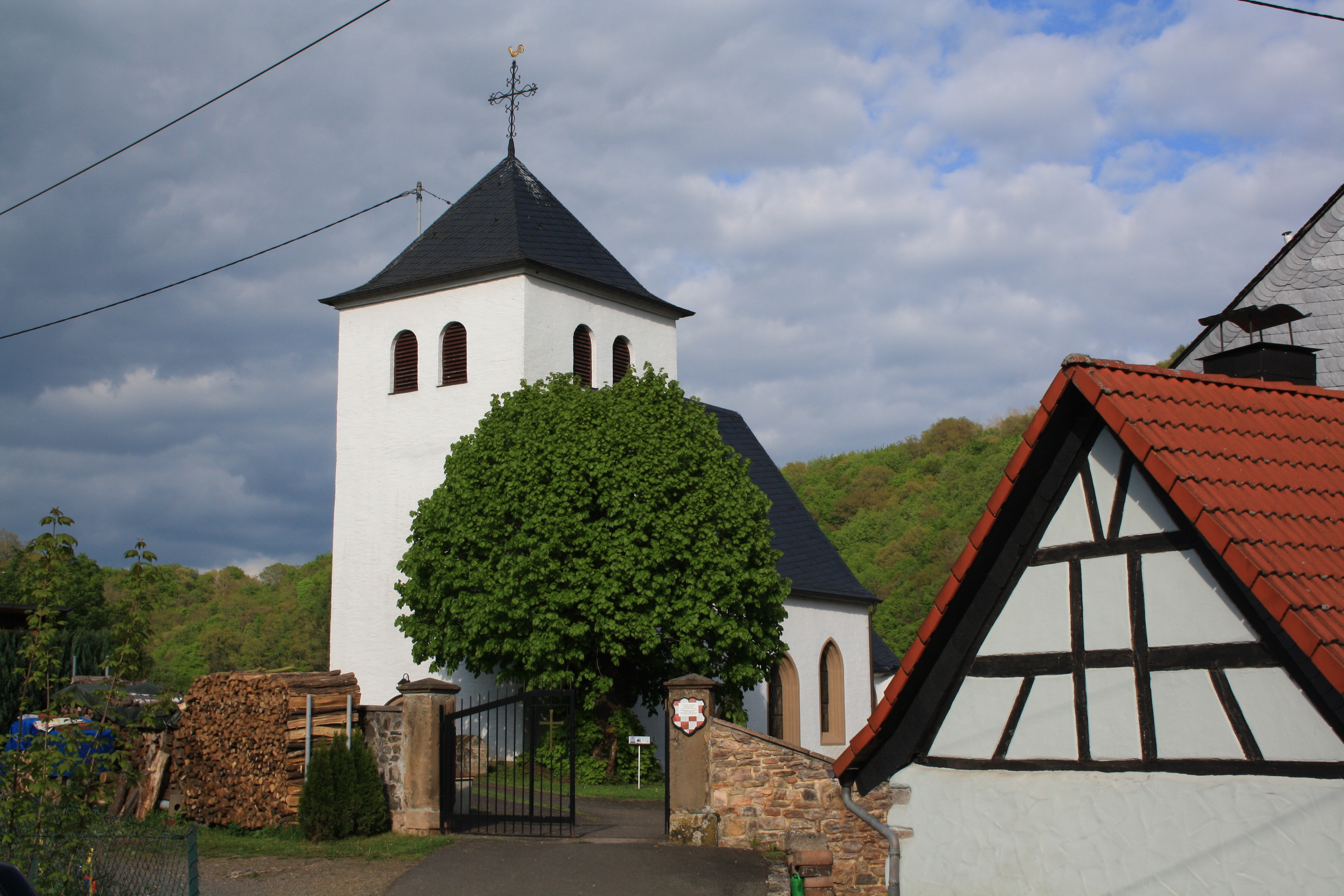 The Evangelical Church in Nohen, Germany.